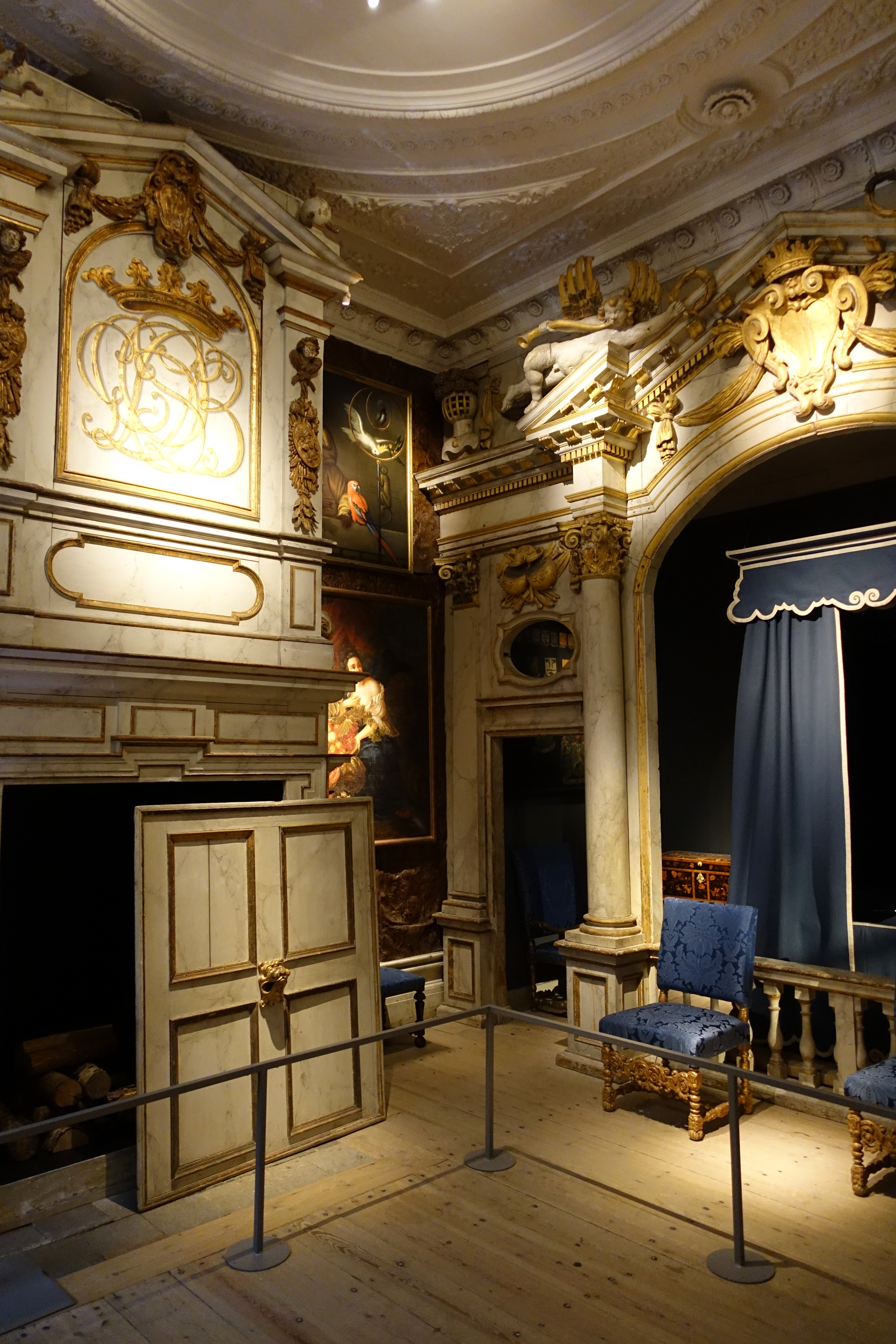 Exhibit in the Nordiska museet - Stockholm, Sweden. These works are in the public domain because their creators died more than 70 years ago.